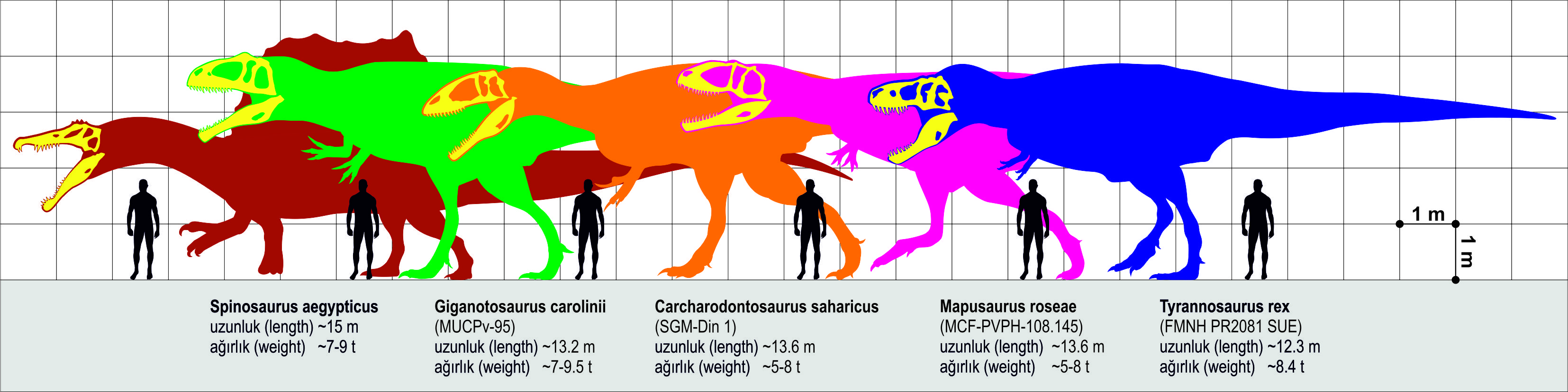 5 giant carnivores: Tyrannosaurus rex, Giganotosaurus carolinii, Spinosaurus aegypticus, Carcharodontosaurus saharicus, and Mapusaurus roseae